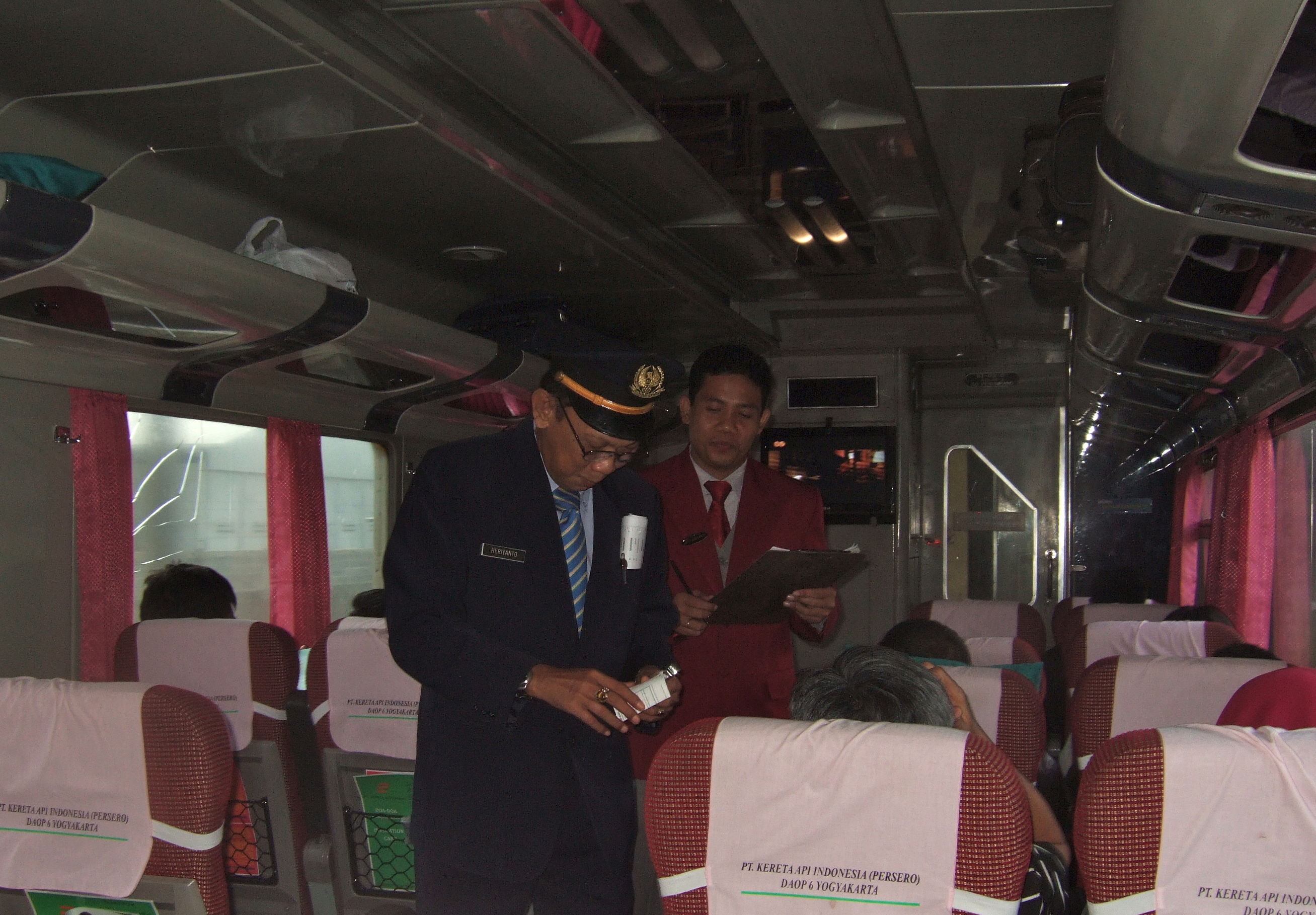 PT Kereta Api Indonesia train conductor at work checking tickets on board Argo Sindoro Train to Semarang.